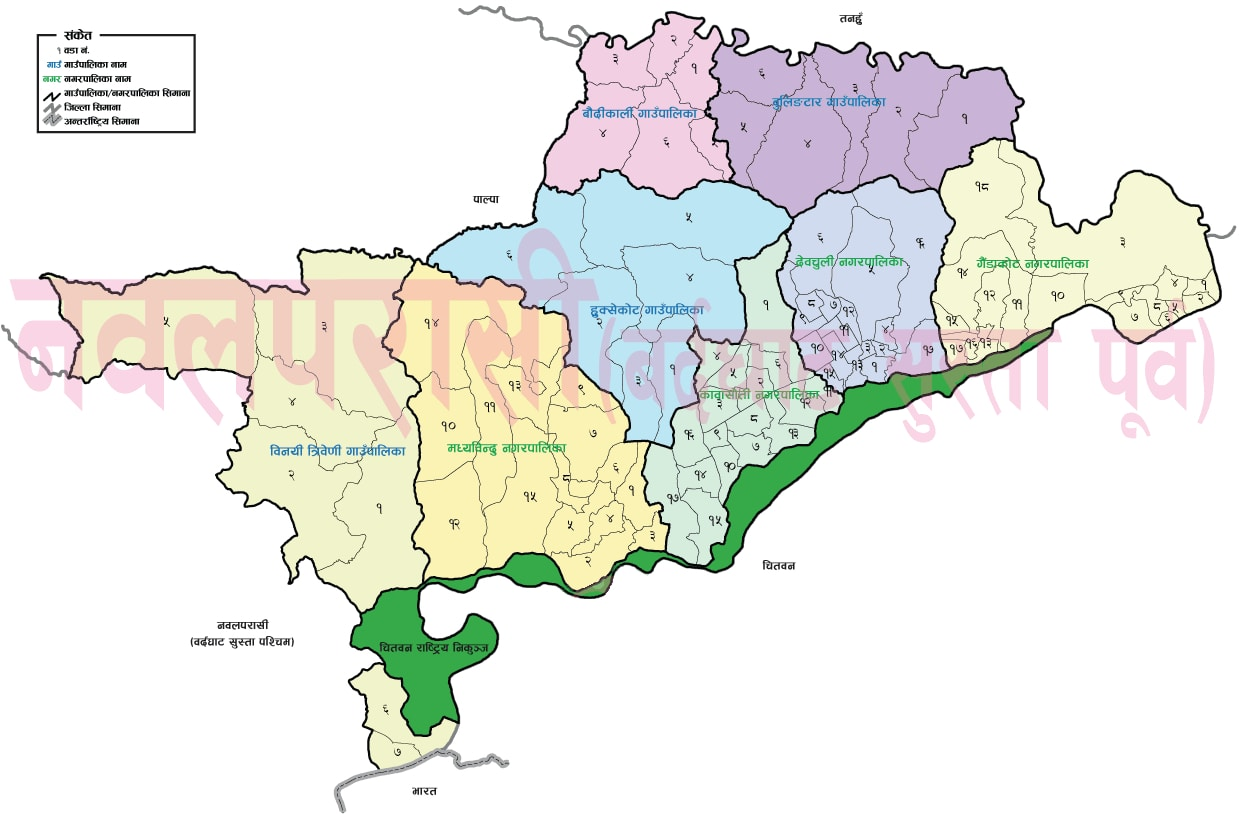 Nawalpur District